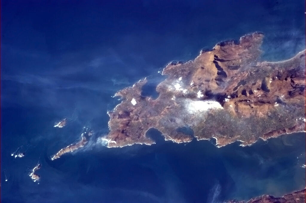 "Thunder Rock, at the very western edge of Ireland, can see the Marina at Dingle." – Original caption by astronaut Chris Hadfield. The Dingle Peninsula in County Kerry in Ireland, with the Blasket Islands offshore to the west, photographed from the International Space Station. The Thunder Rock referred to by the photographer is a very minor feature (0.57 hectares; maximum height 36 metres) offshore to the south of the island of Inishvickillane, appearing as a white spot in this picture (52.037076 ºN, 10.606699 ºW).